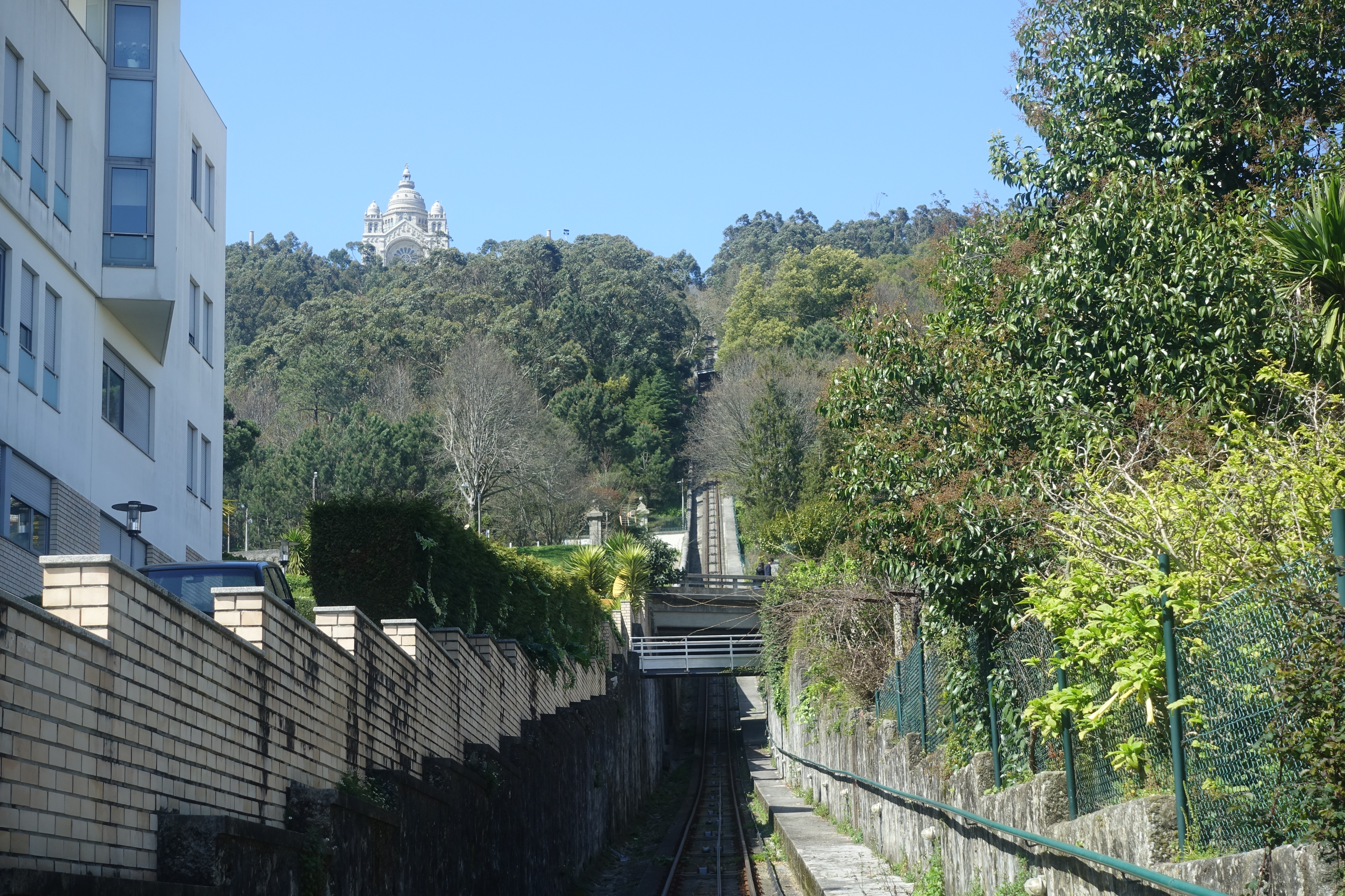 Santa Luzia Funicular in Viana do Castelo Portugal